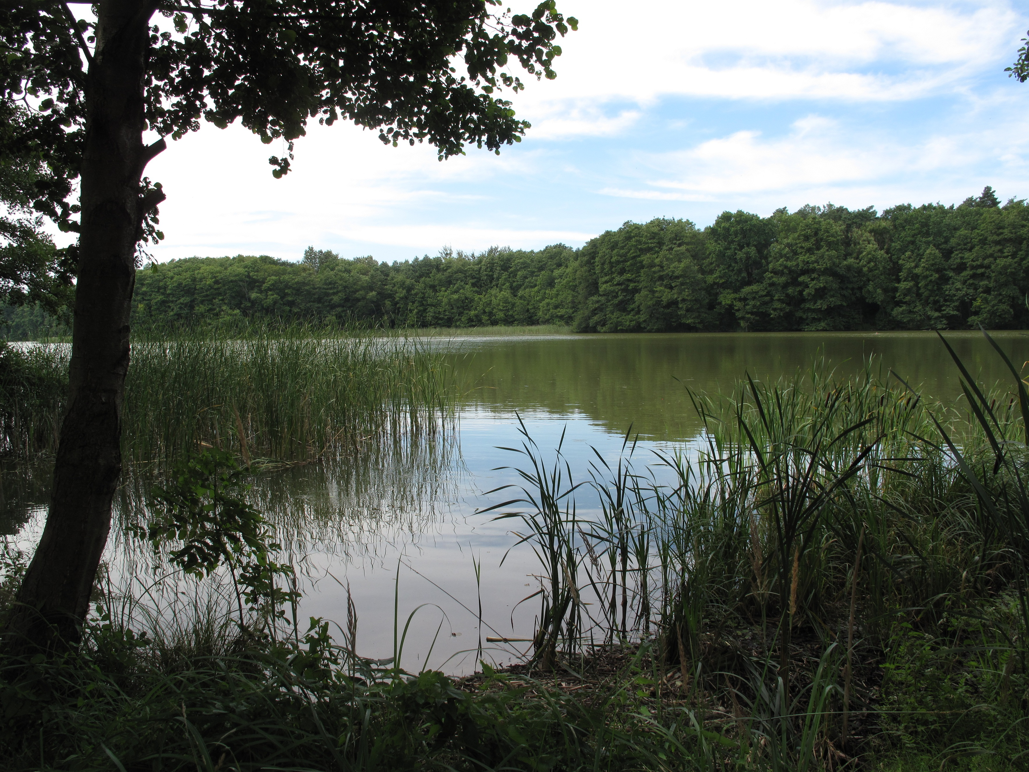 The Lettinsee is a lake in Altfriedland, a village of the municipality Neuhardenberg in the District Märkisch-Oderland, Brandenburg, Germany. The lake covers 16 hectare and is situated in the Märkische Schweiz Nature Park.